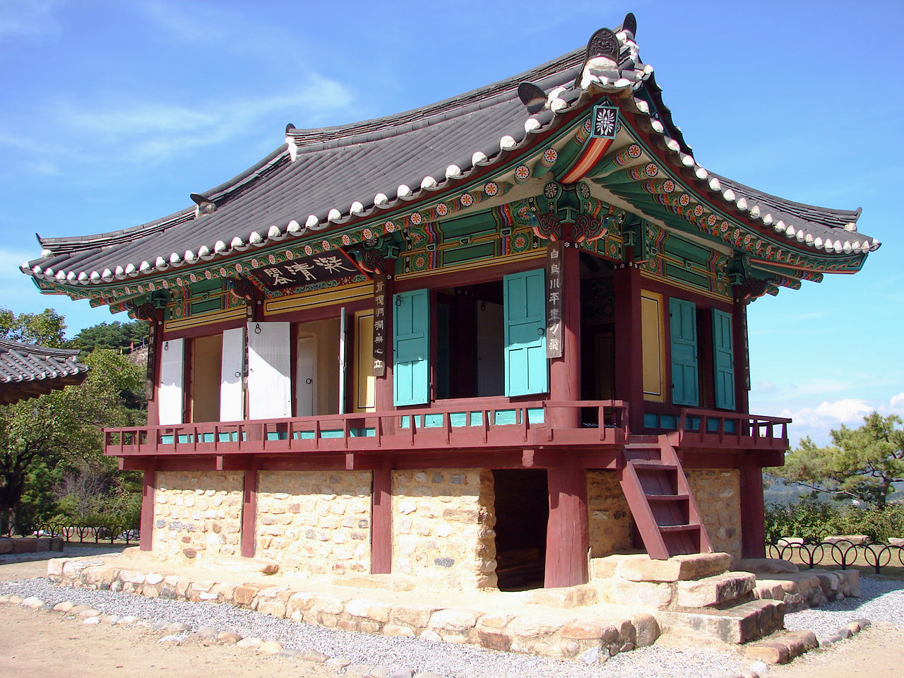 Eungcheong-gak (pavilion) is a two-story building originally stood beside Hanbyeong-nu (pavilion), a guest house of the chief governor of Cheongpung-hyeon. The back part of the first floor is about twice size of the front part, which has a wooden stair leading up to the second floor. The second story has a wood railing all the way around and the floor is of wood tiles. Cheongpung Cultural Properties Complex - located by the Chungjuho Lake. This complex is a reconstructtion of Cheongpung, a village that became submerged after the construction of Chungju Dam. It took three years to relocate the buildings and structures in the current site at a cost of of over 1.6 trillion won. Designated North Chungcheong Province Tangible Cultural Property #90.